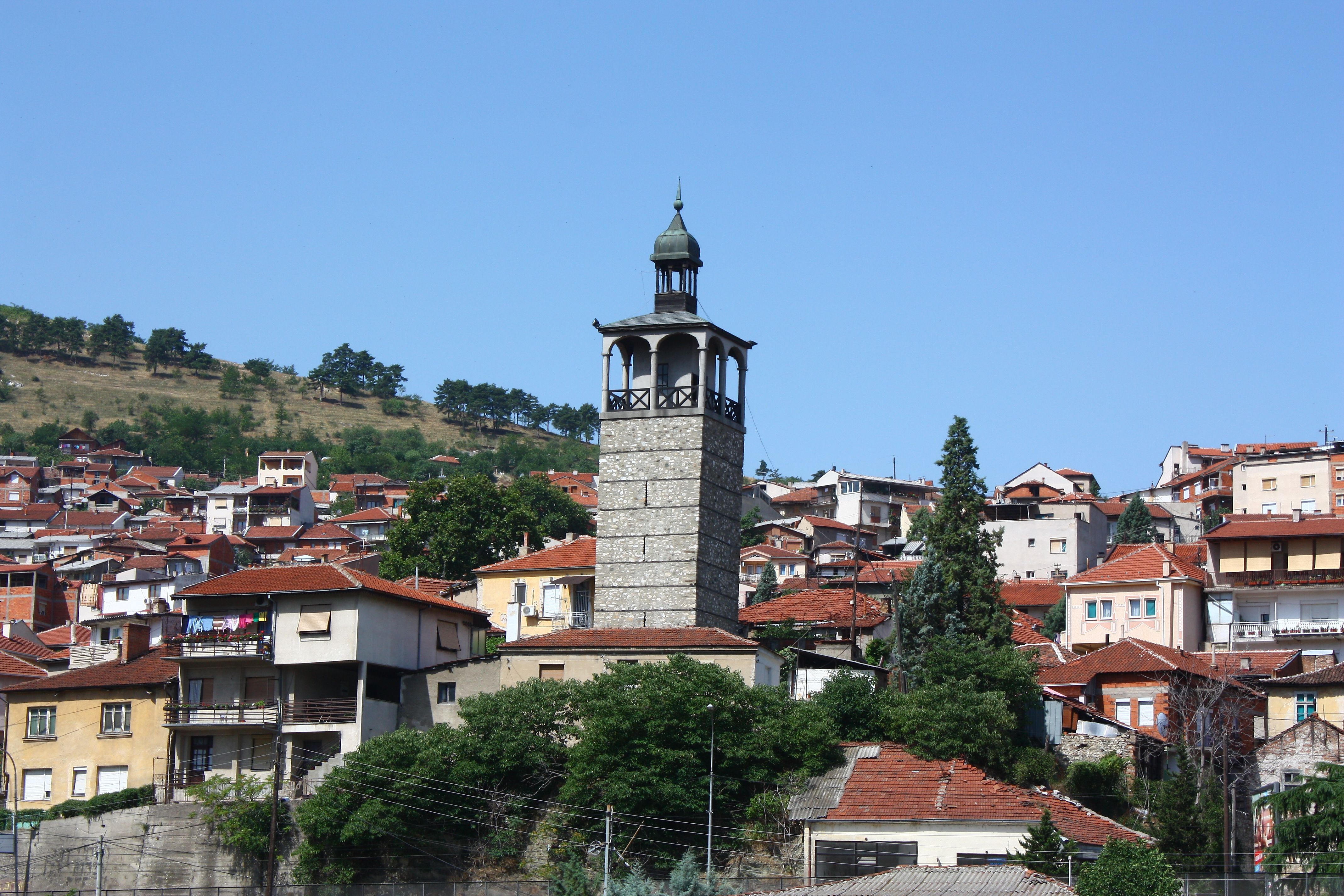 Veles, Macedonia